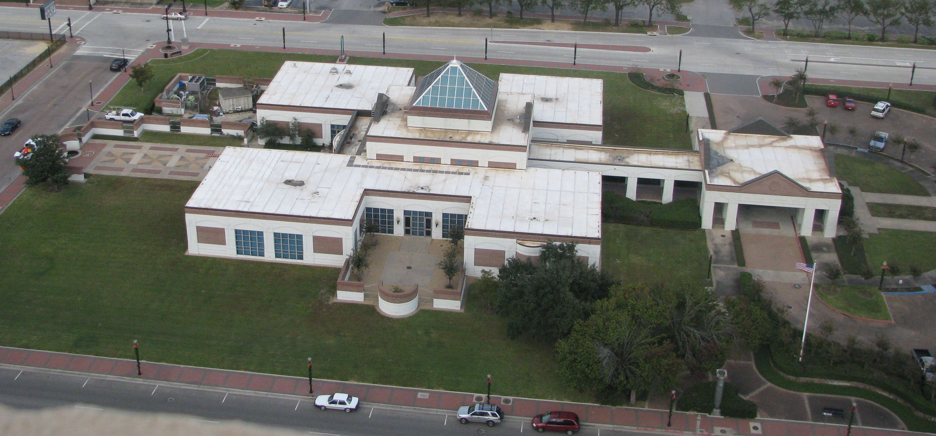 Art Museum of Southeast Texas, Perlstein Park near the bottom, notice the last remaining column from the Perstein building.